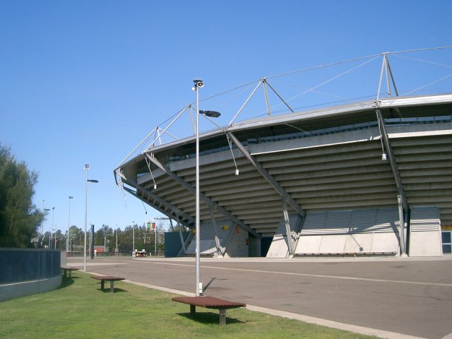 Sydney Olympic Park Tennis Centre